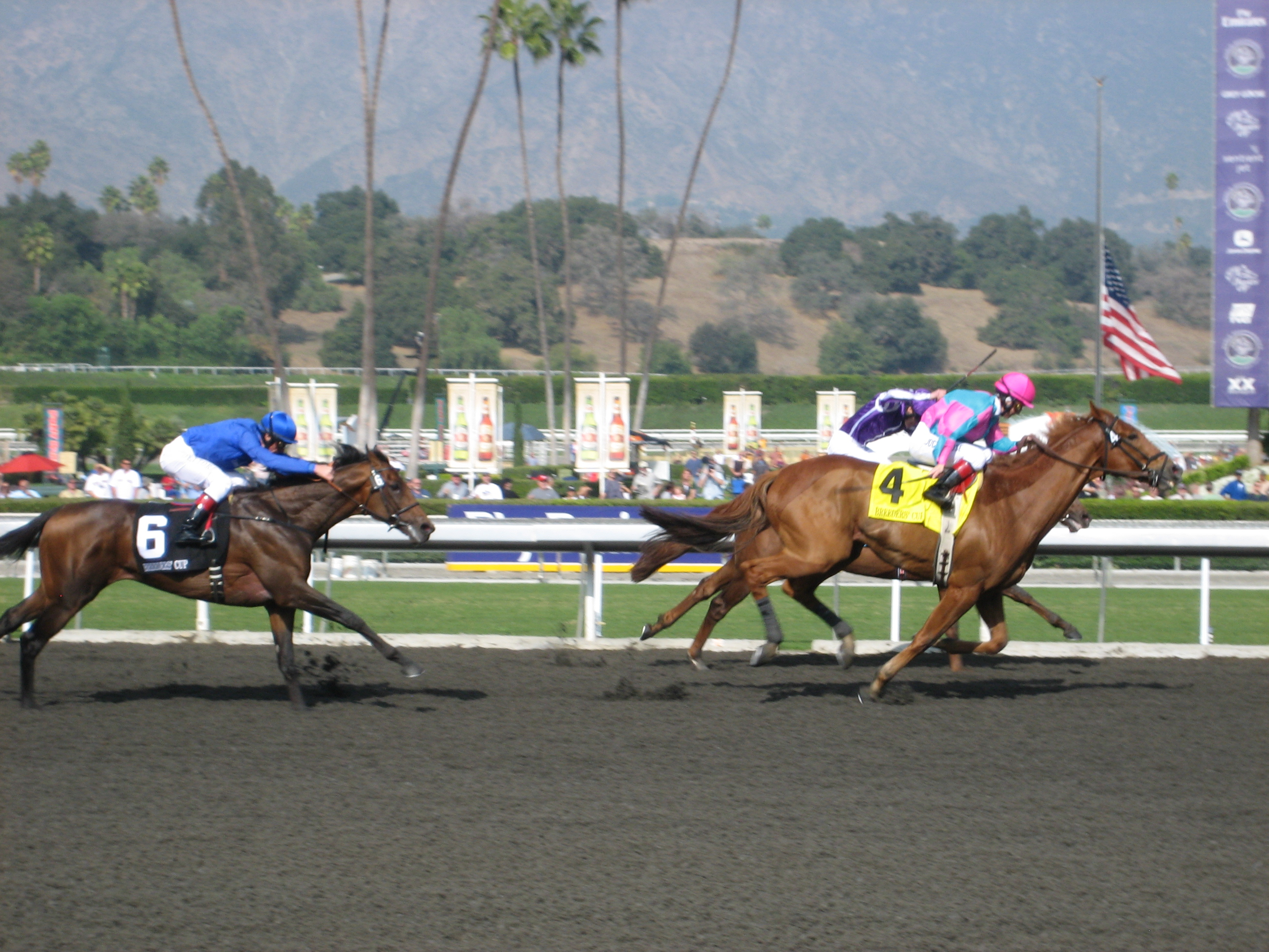 Photos from the Breeder's Cup at Santa Anita Race Track, 06 November 2009. Breeders' Cup Marathon. Cloudy Knight (#4 on the outside) looks the winner but Man of Iron (almost hidden on the rail) is making up ground and will win by a nose.